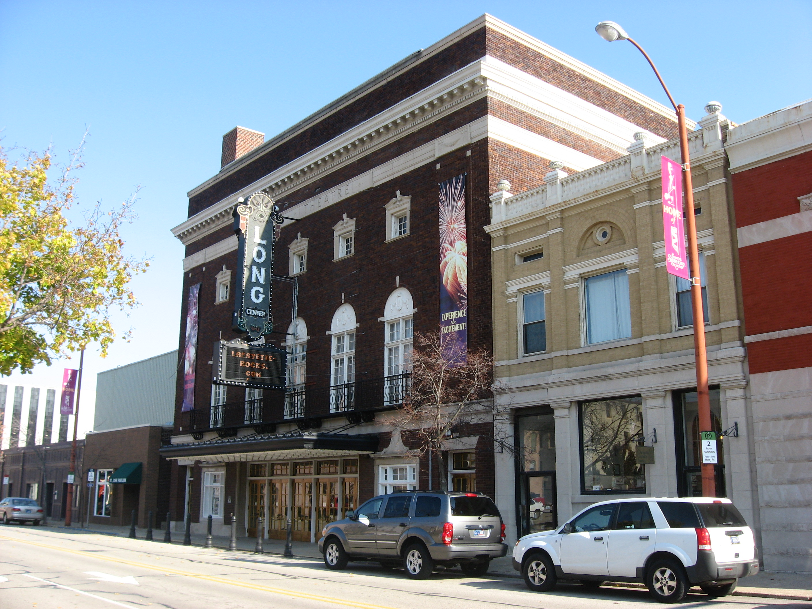 Front of the Mars Theatre, located at 11 N. Sixth Street in Lafayette, Indiana, United States. Built in 1921, it is listed on the National Register of Historic Places.